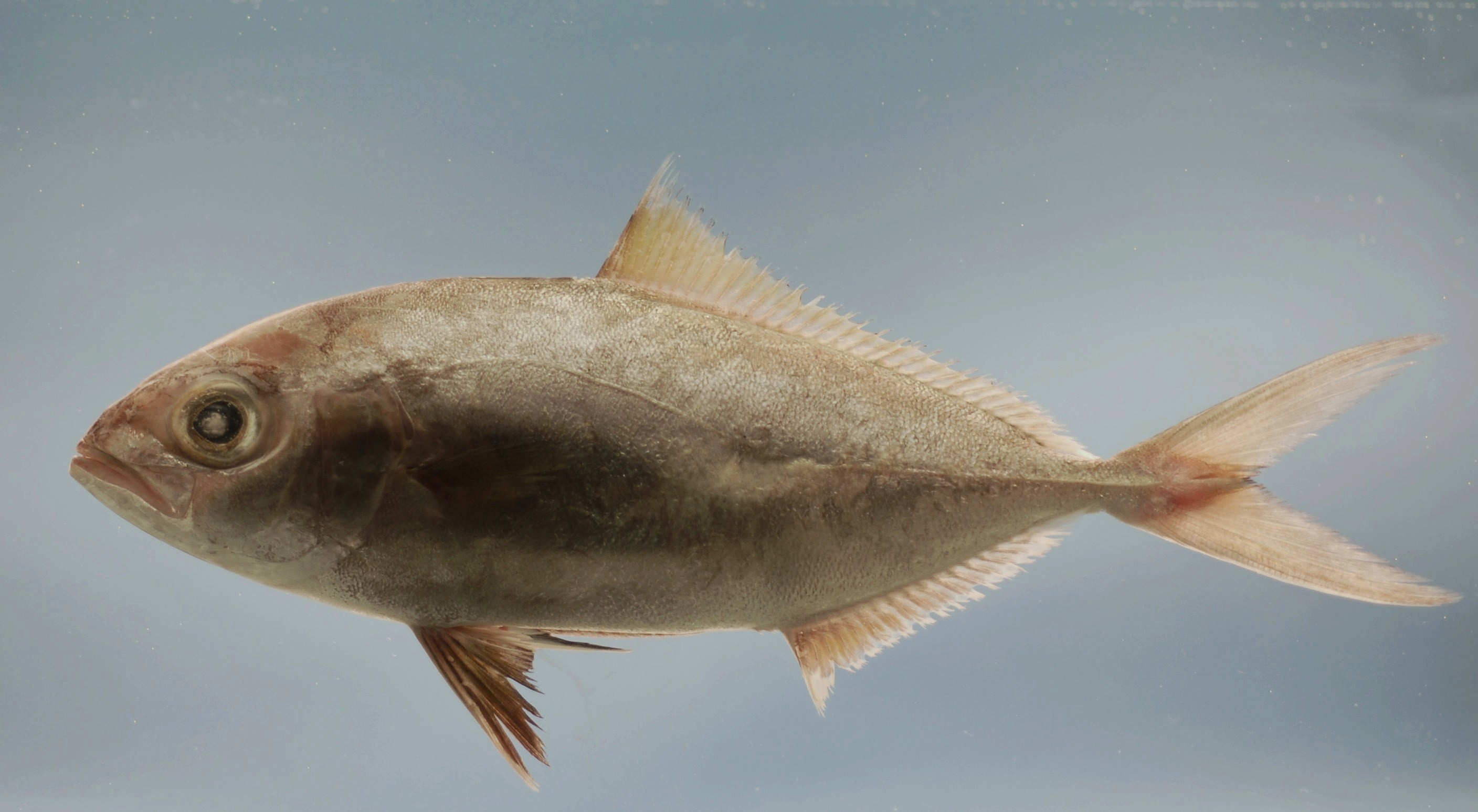 Lesser amberjack ( Seriola fasciata ). Gulf of Mexico.